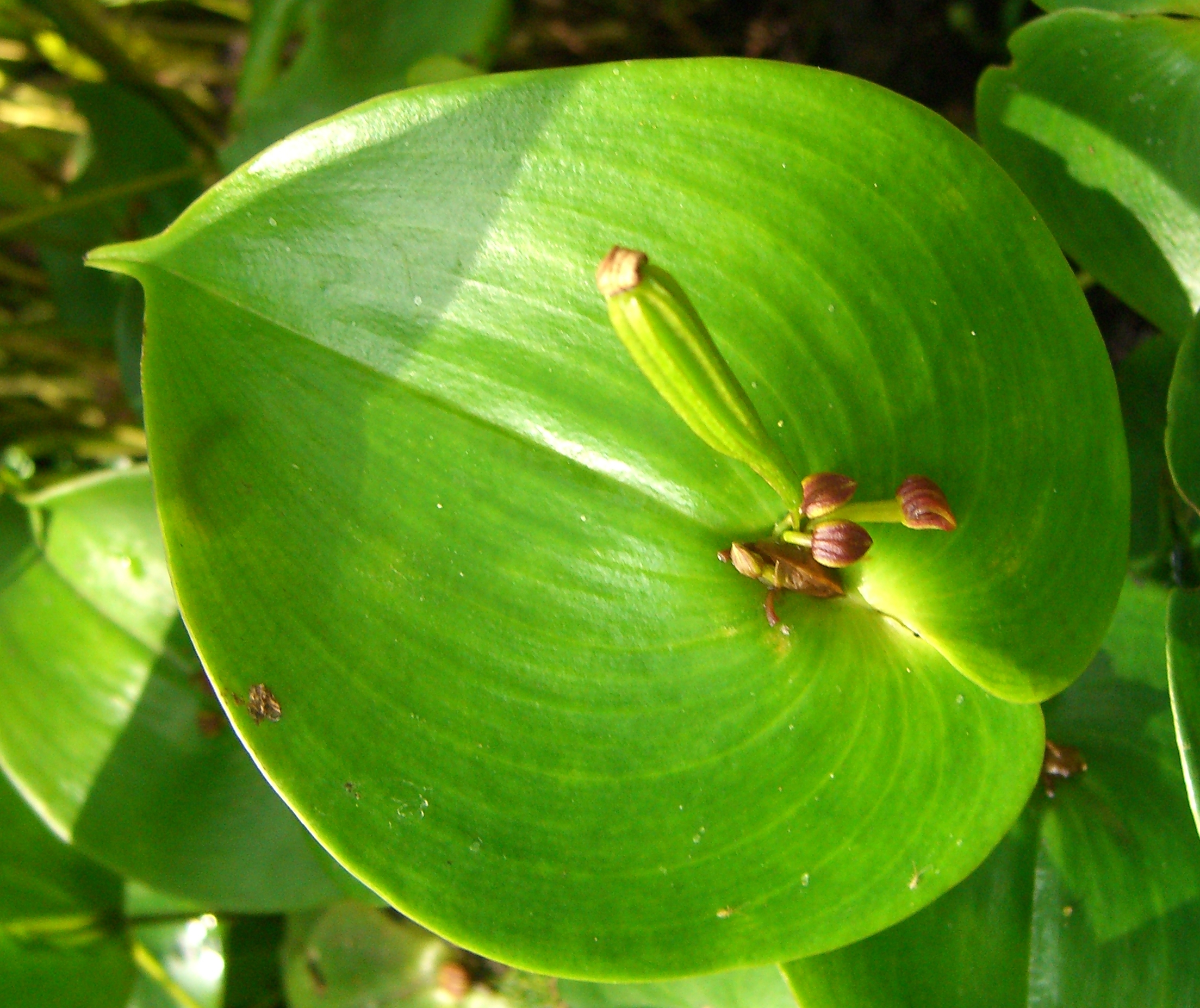 Please report references to .